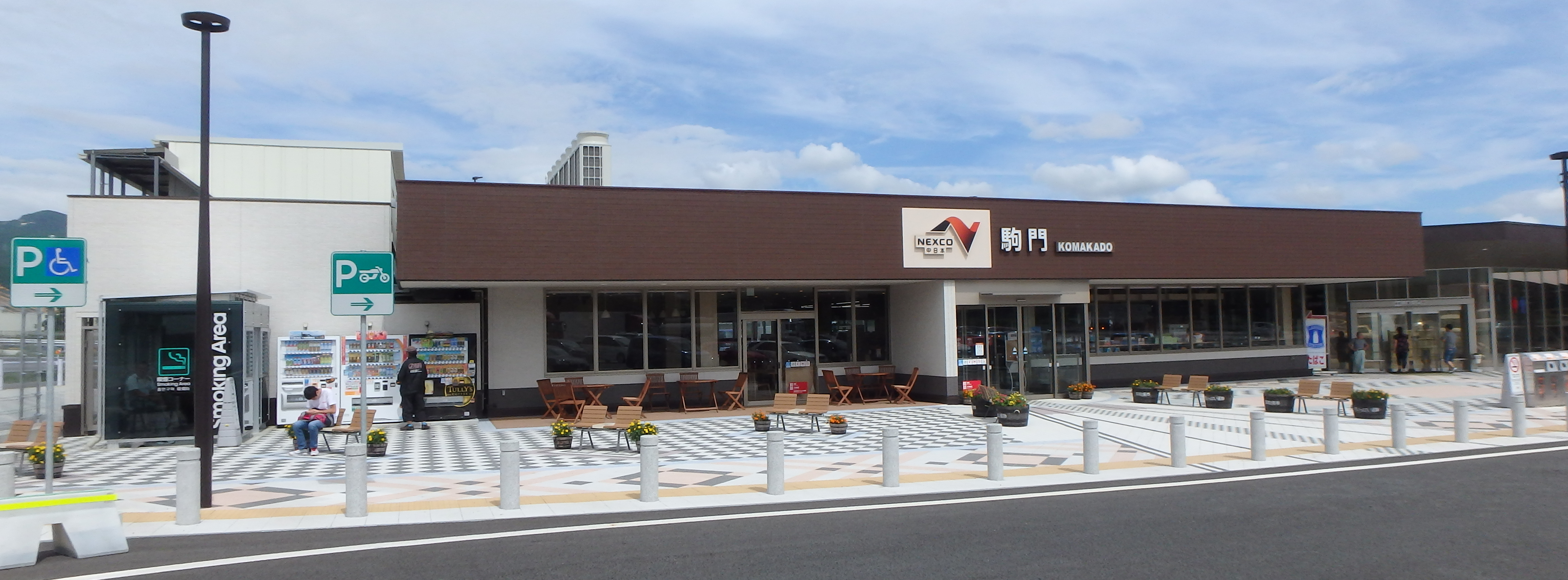 Komakado Parkig Area for Nagoya Kanagawa prefecture,Japan